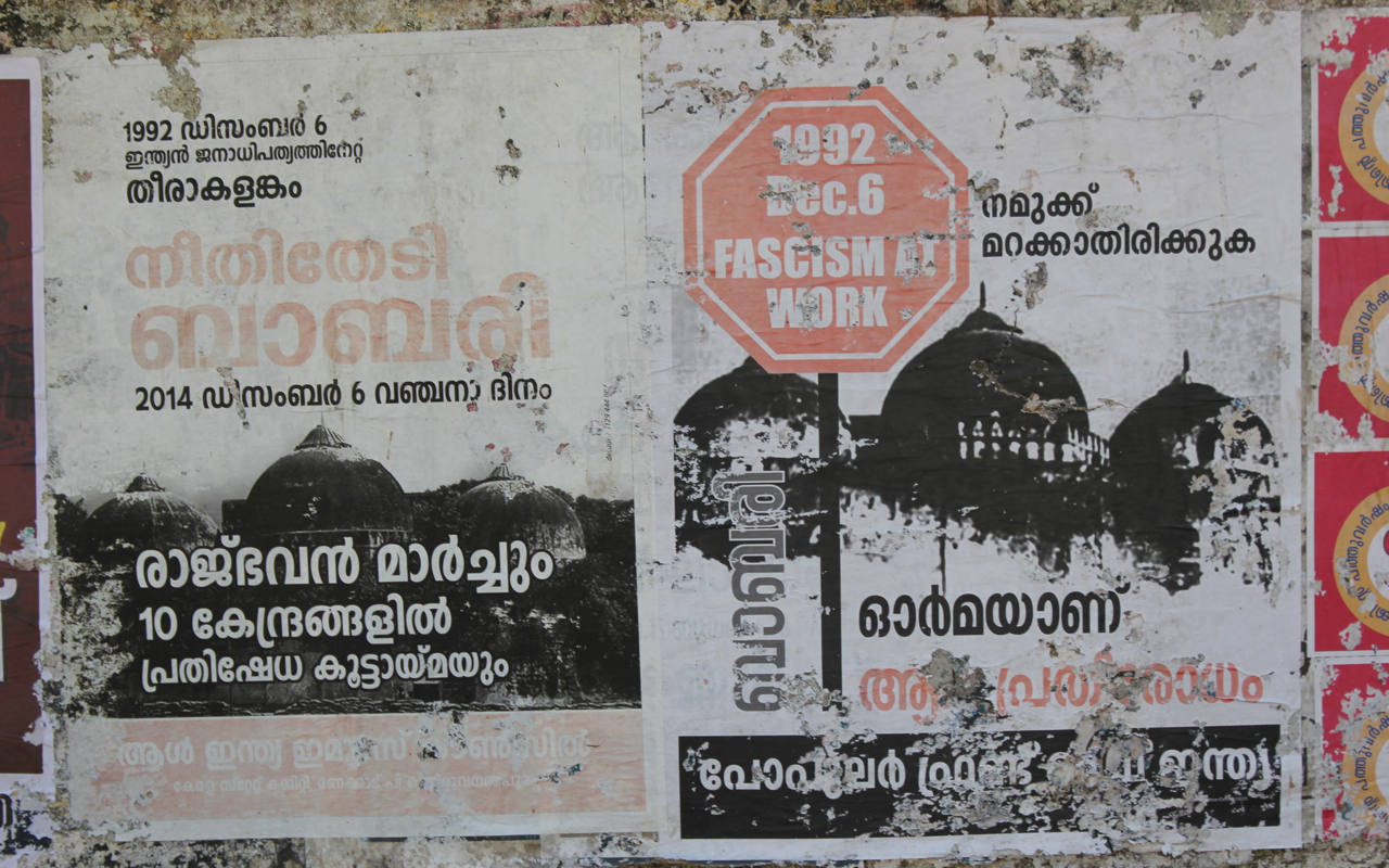 Lest we forget the Babri Masjid demolition in Ayodhya